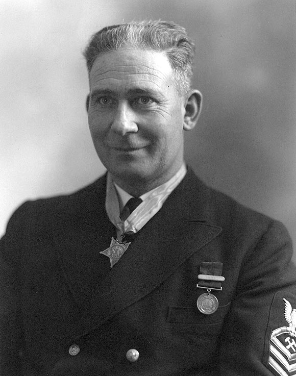 Chief Metalsmith James Harper McDonald, United States Navy. Photographed on 19 January 1940, just after being presented with the Medal of Honor for heroism during rescue and salvage operations on USS Squalus (SS-192), following her accidental sinking on 23 May 1939. He was a Master Diver at that time.